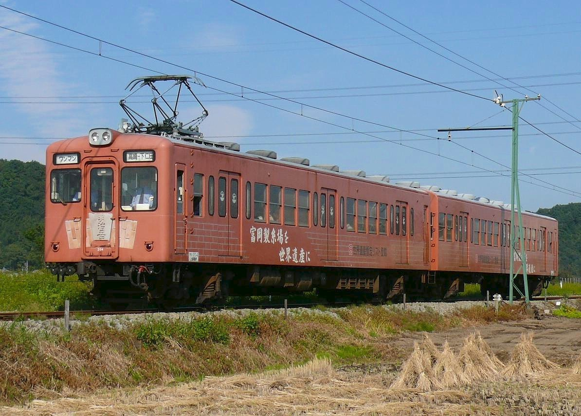 Joushin Dentetu Railway Type 200 (204) Train (Japan). Full-page ad train of [The Tomioka silk reeler place to World Heritage]. Taking a picture from the public road between stations of Maniwa station and Yoshii.